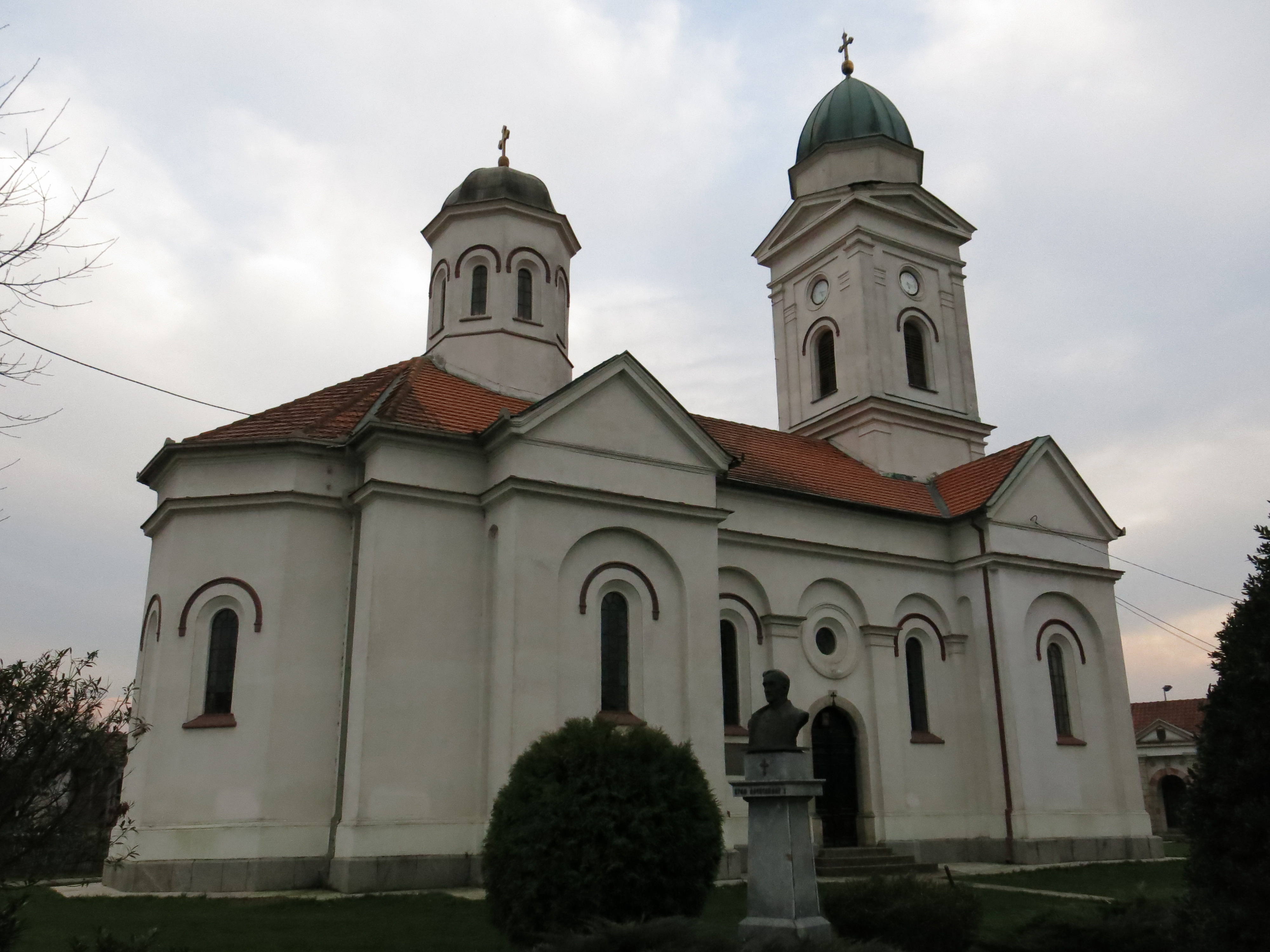 Prnjavor, Church of Saint Elijah